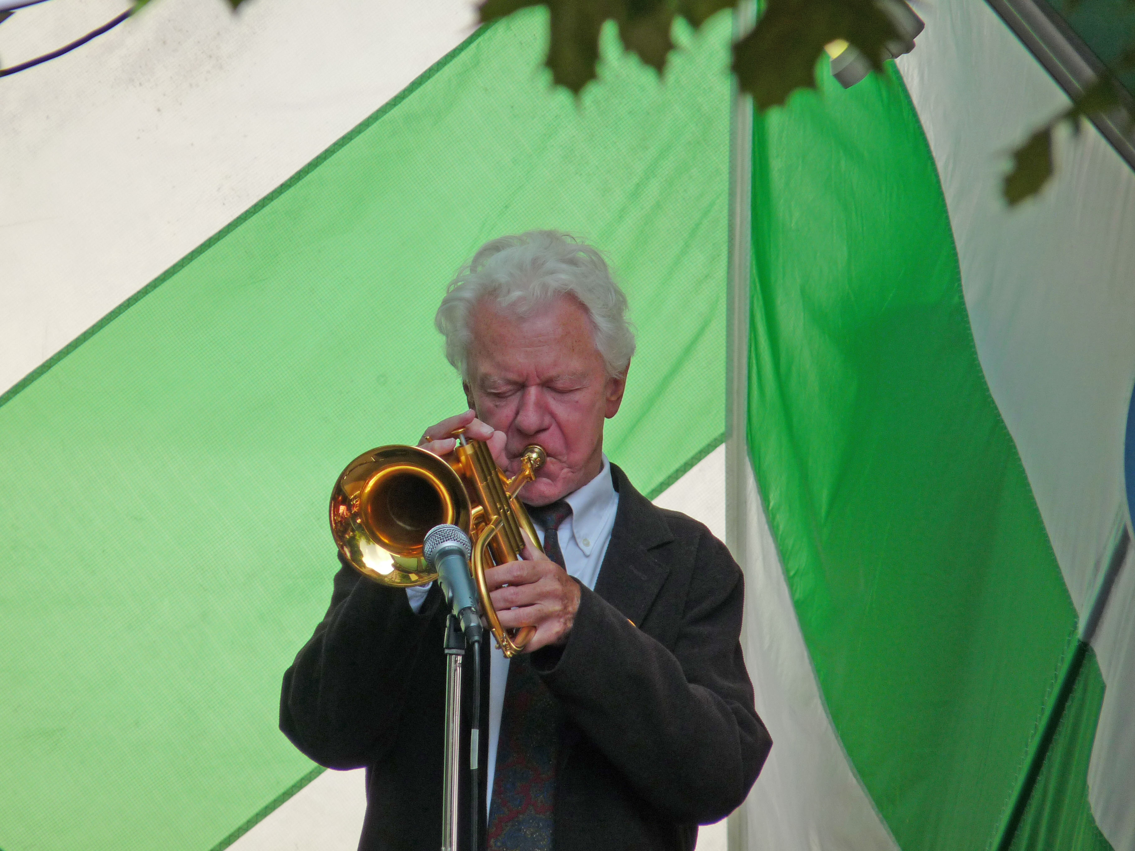 Ack van Rooyen at the Idstein jazz festival 2009